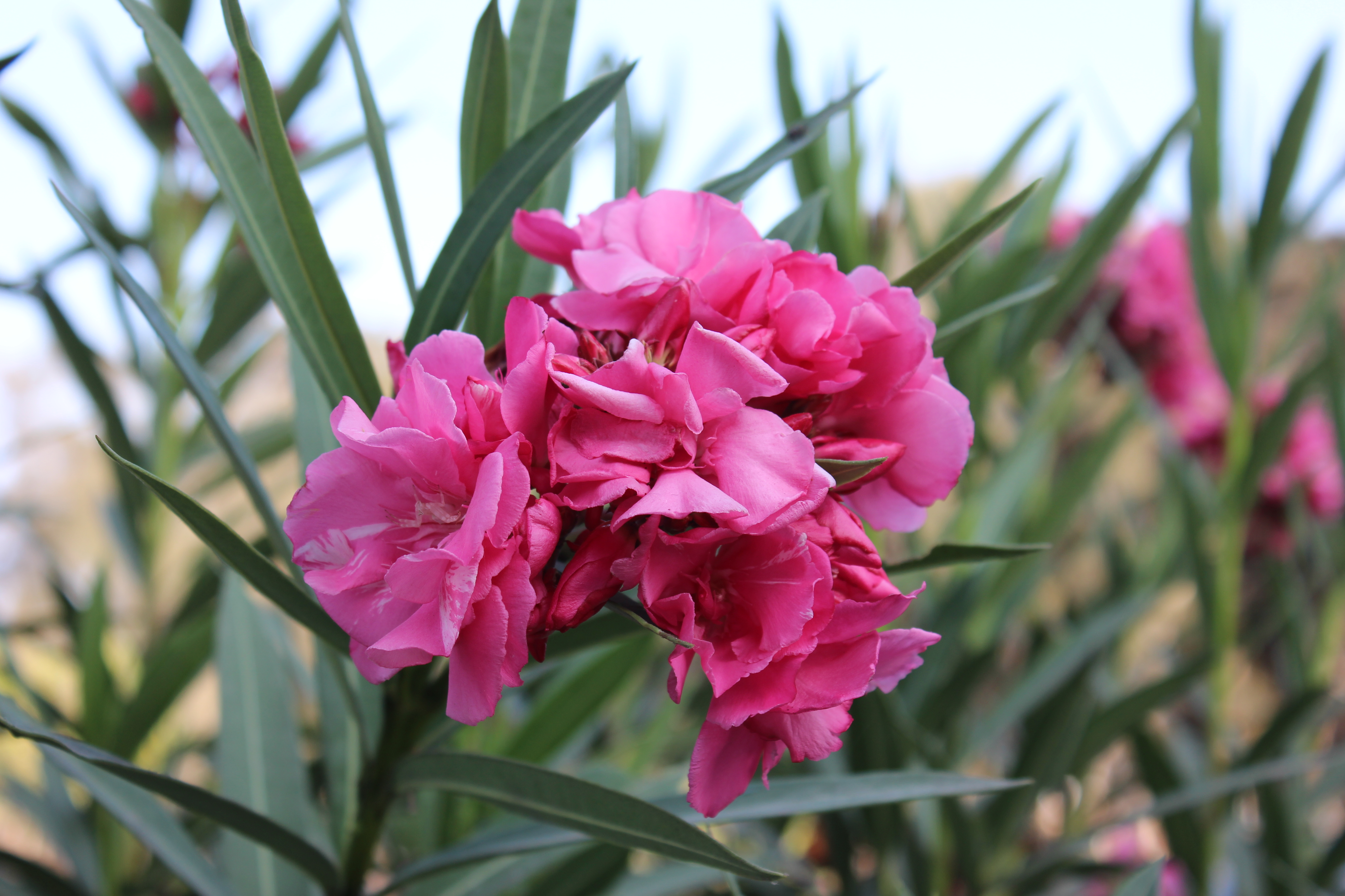 Nerium oleander pink flower in Montazah Garden in Alexandria, Egypt.